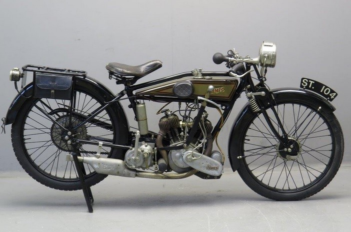 1926 James 3½hp 500cc twin cylinder side valve motorcycle